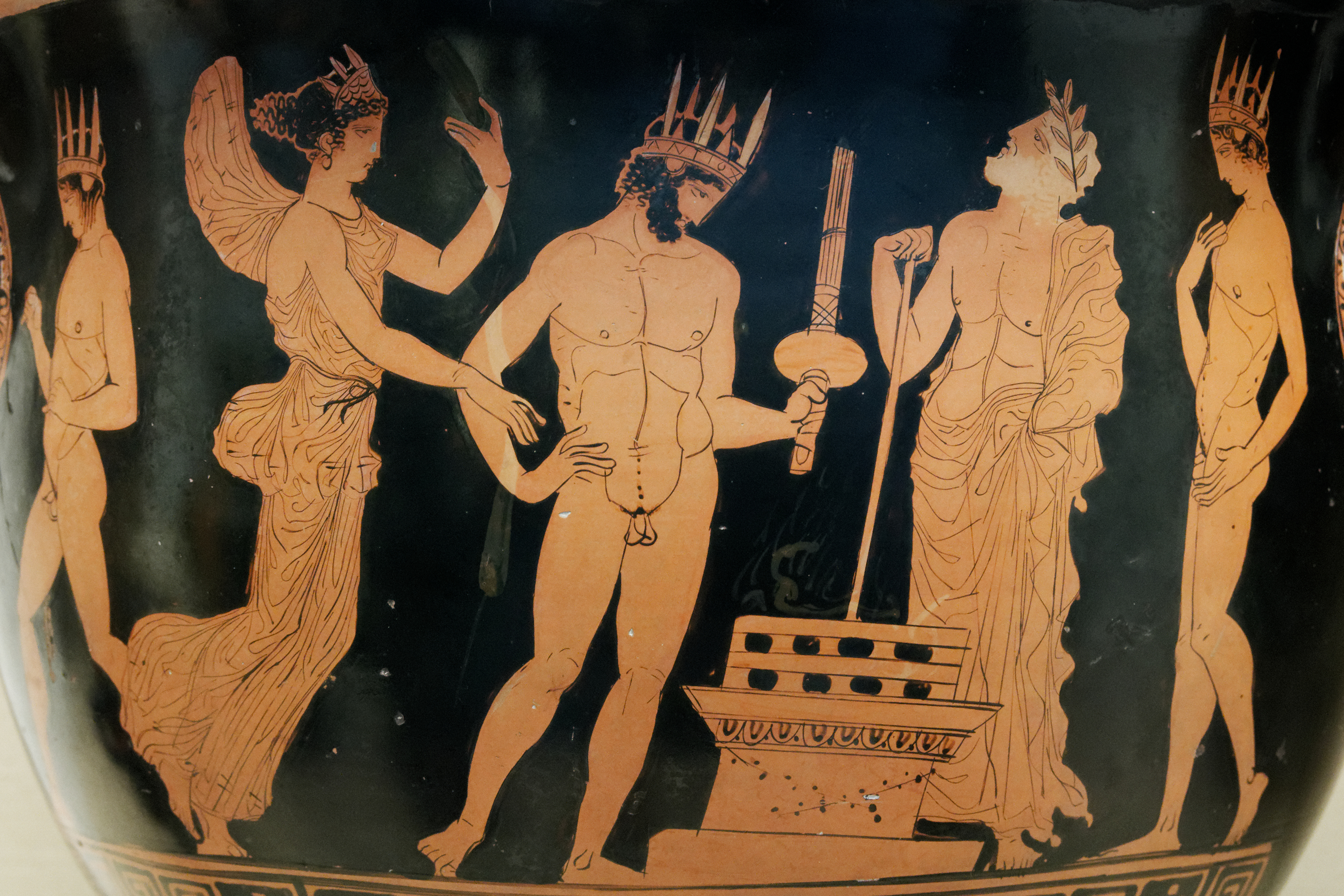 Nike, personification of Victory, presenting the winner of a torch-race with victory ribbons. Side A of an Attic red-figured krater.